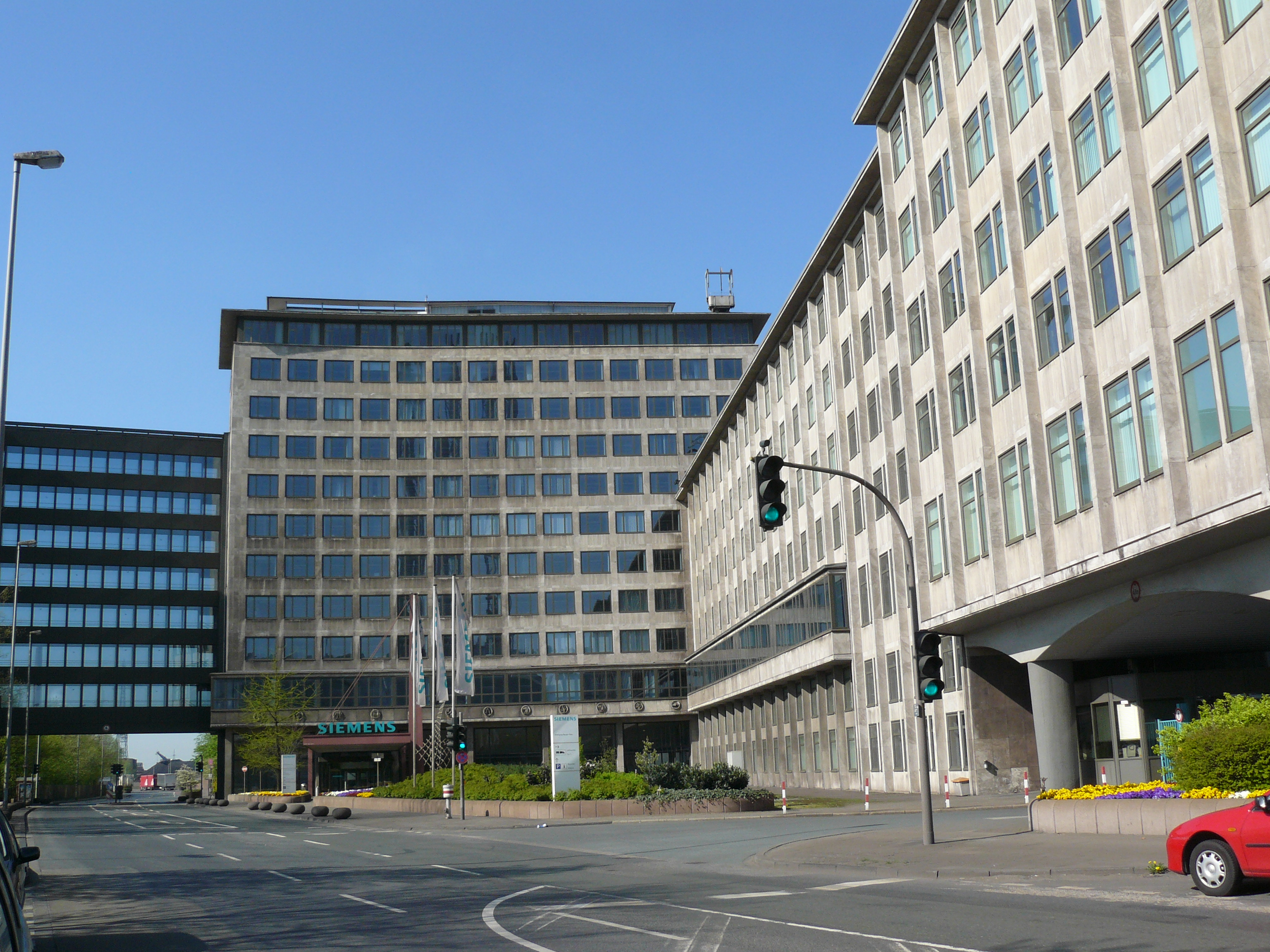 formal headquarter in Duisburg-Hochfeld of erstwhile Demag Company